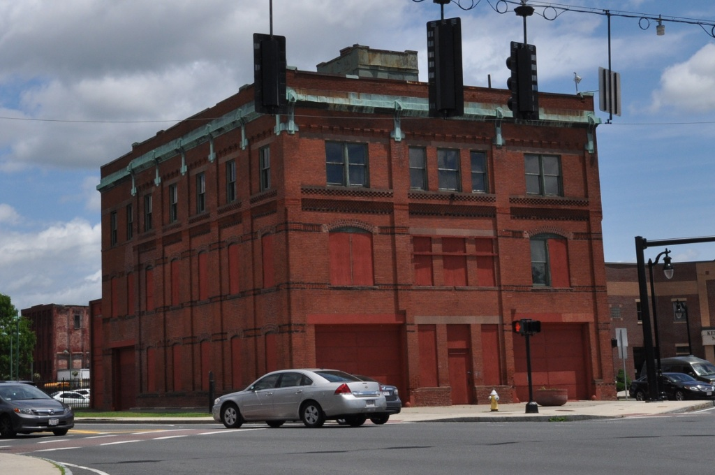 The Winchester Square Fire Station building in Springfield, Massachusetts.